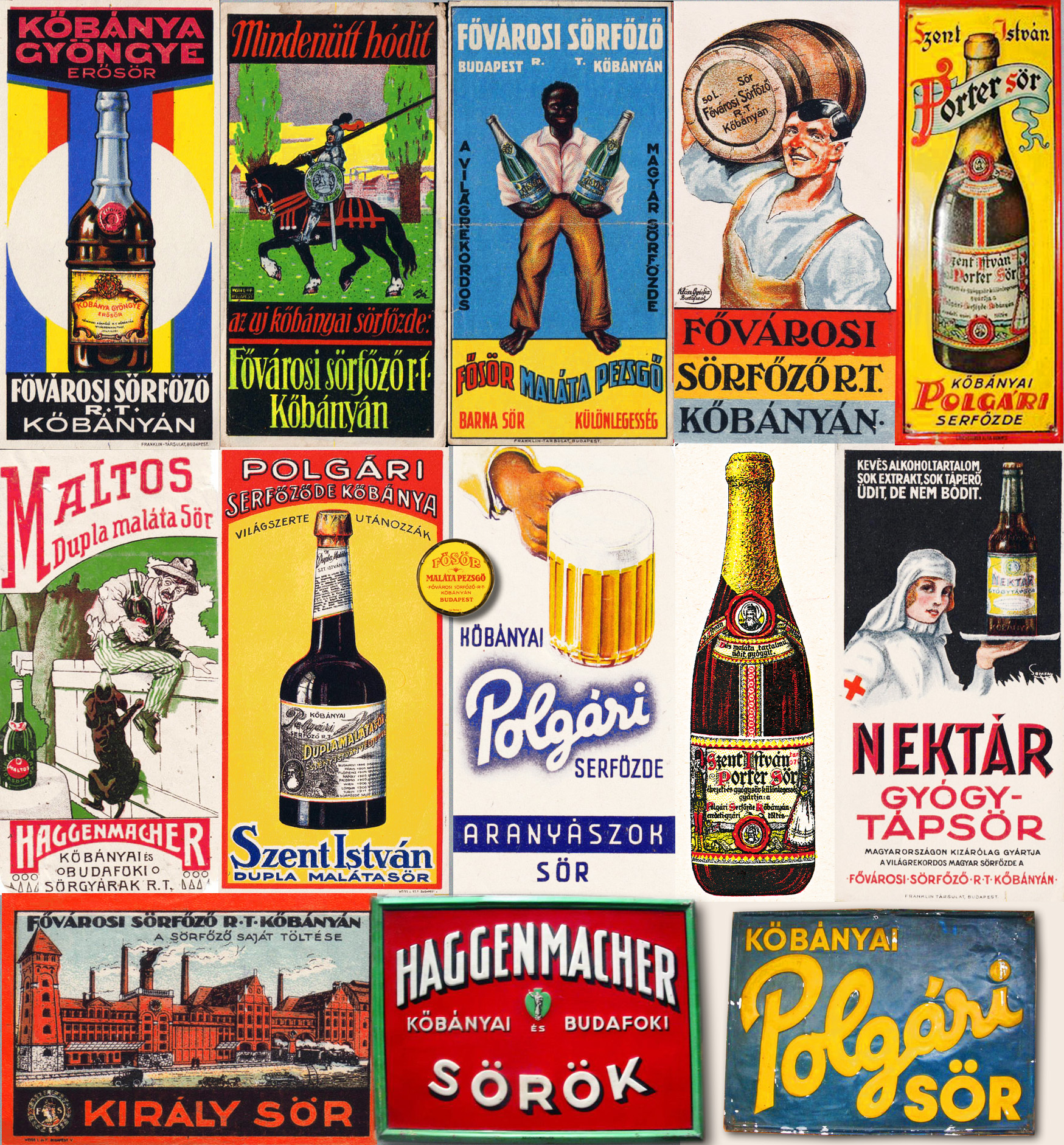 Various beer commercials as from the years 1920-1930 Kőbánya various breweries, Budapest District X. Collage of User